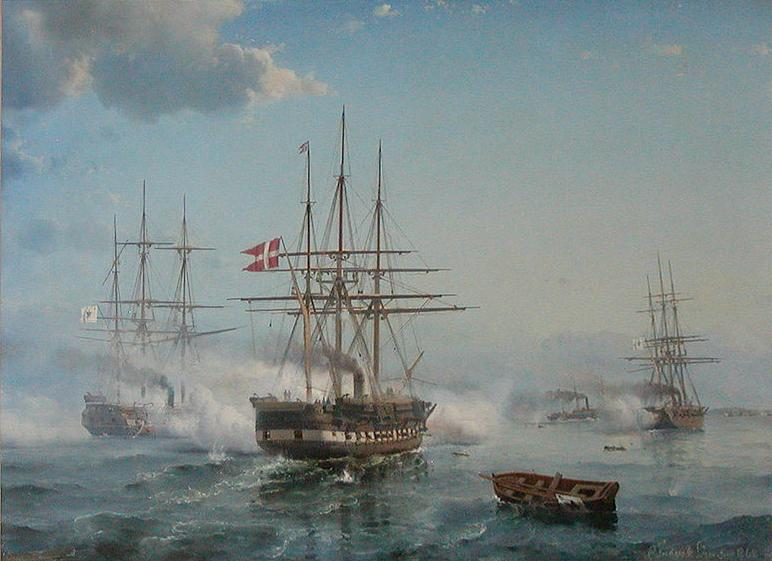 cropped painting